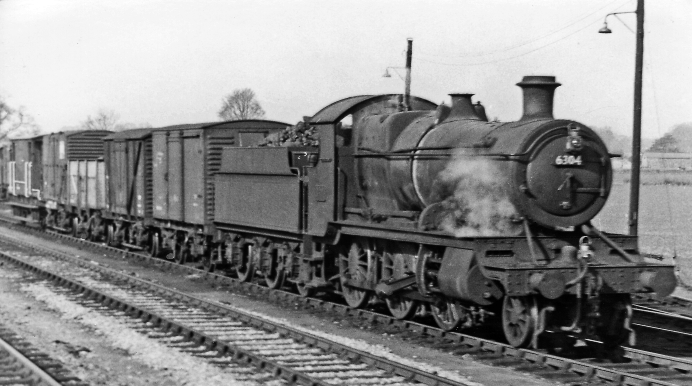 Up freight at Over Junction, Gloucester. View westward, towards Newport etc.: ex-GWR South Wales main line. The short Class H freight of just four wagons is headed by Churchward 43XX 2-6-0 No. 6304 (built 12/20, withdrawn 1/64).